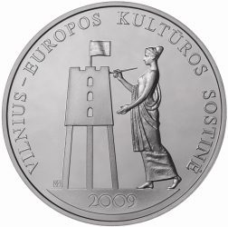 50 litas Coin dedicated to Vilnius–European Capital of Culture 2009 Silver Ag 925 Quality proof Diameter 38.61 mm Weight 28.28 g The words on the edge of the coin: VILNIUS–METROPOLIS CULTURAE EUROPENSIS Designed by Vytautas Narutis Mintage 10,000 pcs Issue 2009 The coin was minted at the UAB Lithuanian Mint.